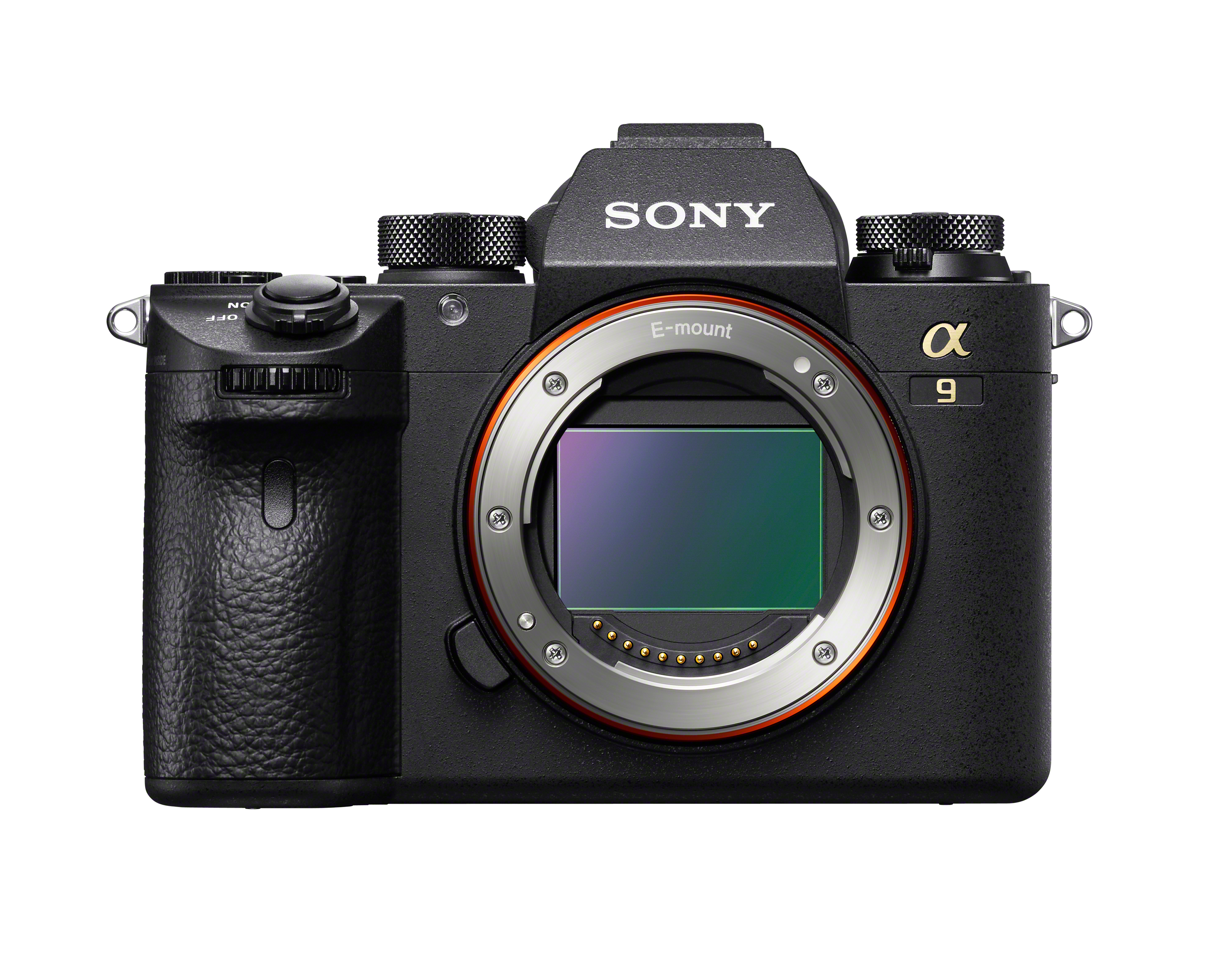 Sony Alpha a9 (ILCE-9)